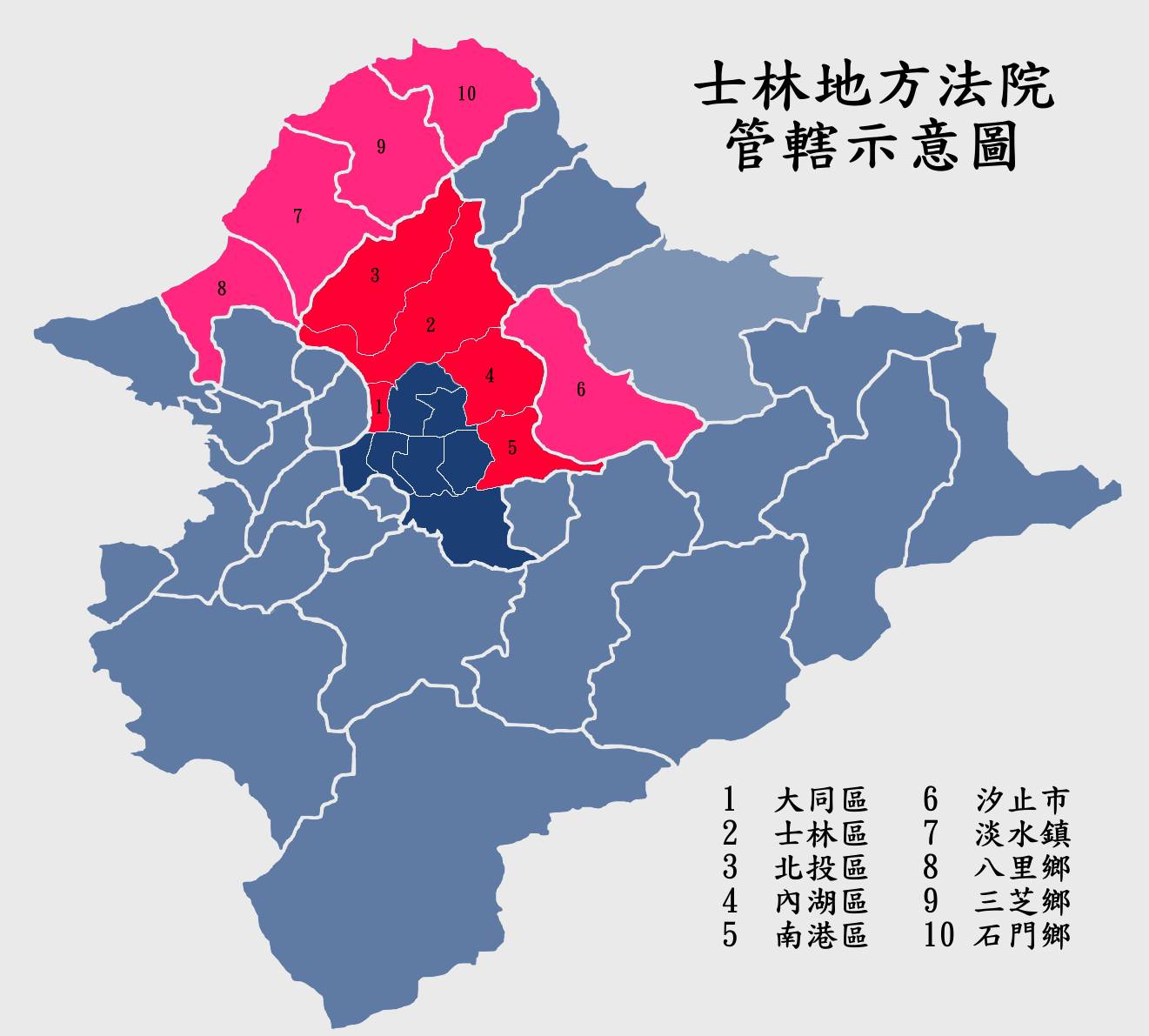 The administration map of Shilin Regional Court, Taiwan